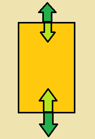 Adhesion Tapes Forces due to Thermal Expansion Contraction